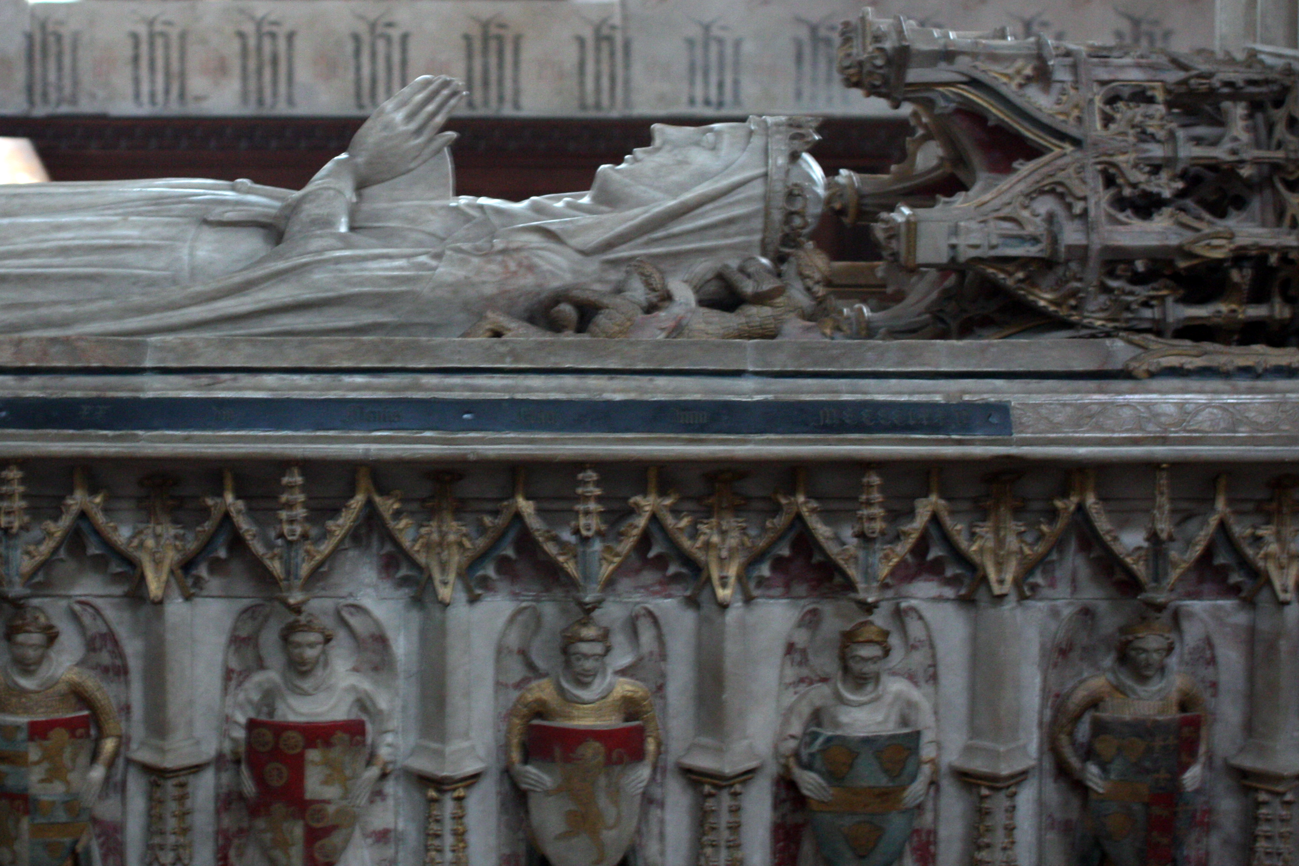 Church of St Mary the Virgin, Ewelme. North side of chest tomb of Alice Chaucer, Duchess of Suffolk (1404–1475), born Alice Chaucer, daughter of Thomas Chaucer (son of the poet Geoffrey Chaucer) and Matilda Burghersh. She married William de la Pole, 1st Duke of Suffolk (1396-1450). Her son was John de la Pole, 2nd Duke of Suffolk, who married Elizabeth of York, second surviving daughter of Richard of York, 3rd Duke of York (a great-grandson of King Edward III) and Cecily Neville. Elizabeth's brothers included the Yorkist kings Edward IV and Richard III. The monument was restored by Dr Kidd, Rector of Ewelme in 1848 and the shields were repainted. List of coats of arms on south s: (Source:[1], which incorrectly identified the arms of Chaucer as Burghersh throughout.) Arms (right to left/west to east): 1. De la Pole impaling Royal Arms of England (representing her son's marriage to Elizabeth of York). 2. De la Pole. 3. Chaucer. 4. Roet quartering Chaucer. 5. De la Pole quartering Chaucer. 6. Montacute and Monthermar quartering and impaling Mohun. 7. De la Pole impaling Neville (sic, perhaps Stafford?). 8. Roet impaling Chaucer.